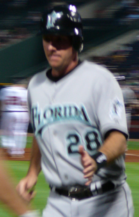 Picture I took of Jason Wood on 6-5-07 21:36, 7 June 2007 . . Chrisjnelson . . 200×313 (95,551 bytes)